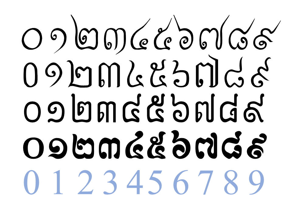 Khmer numerals with four different fonts comparing to Arabic numerals